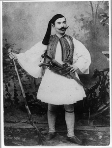 Nikostratos Kalomenopoulos